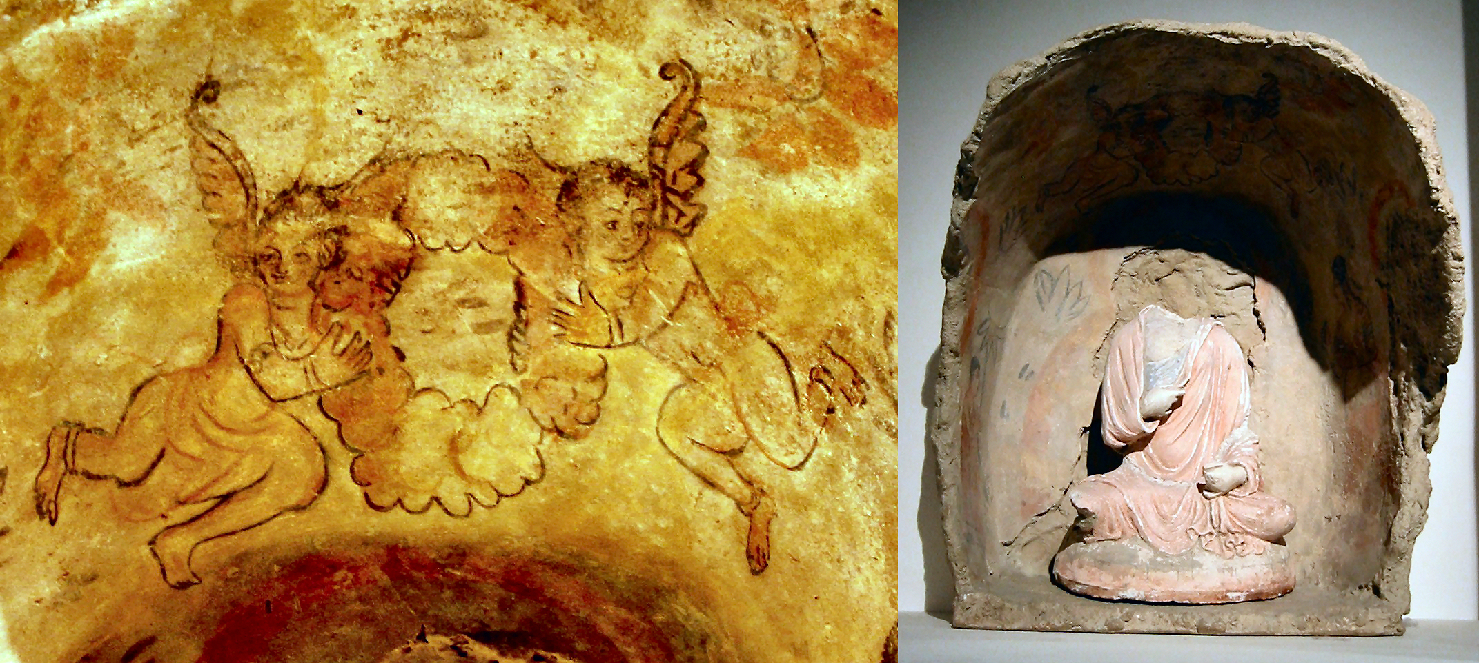 Cupids and Buddha. Musée Guimet. Personal photograph 2006.